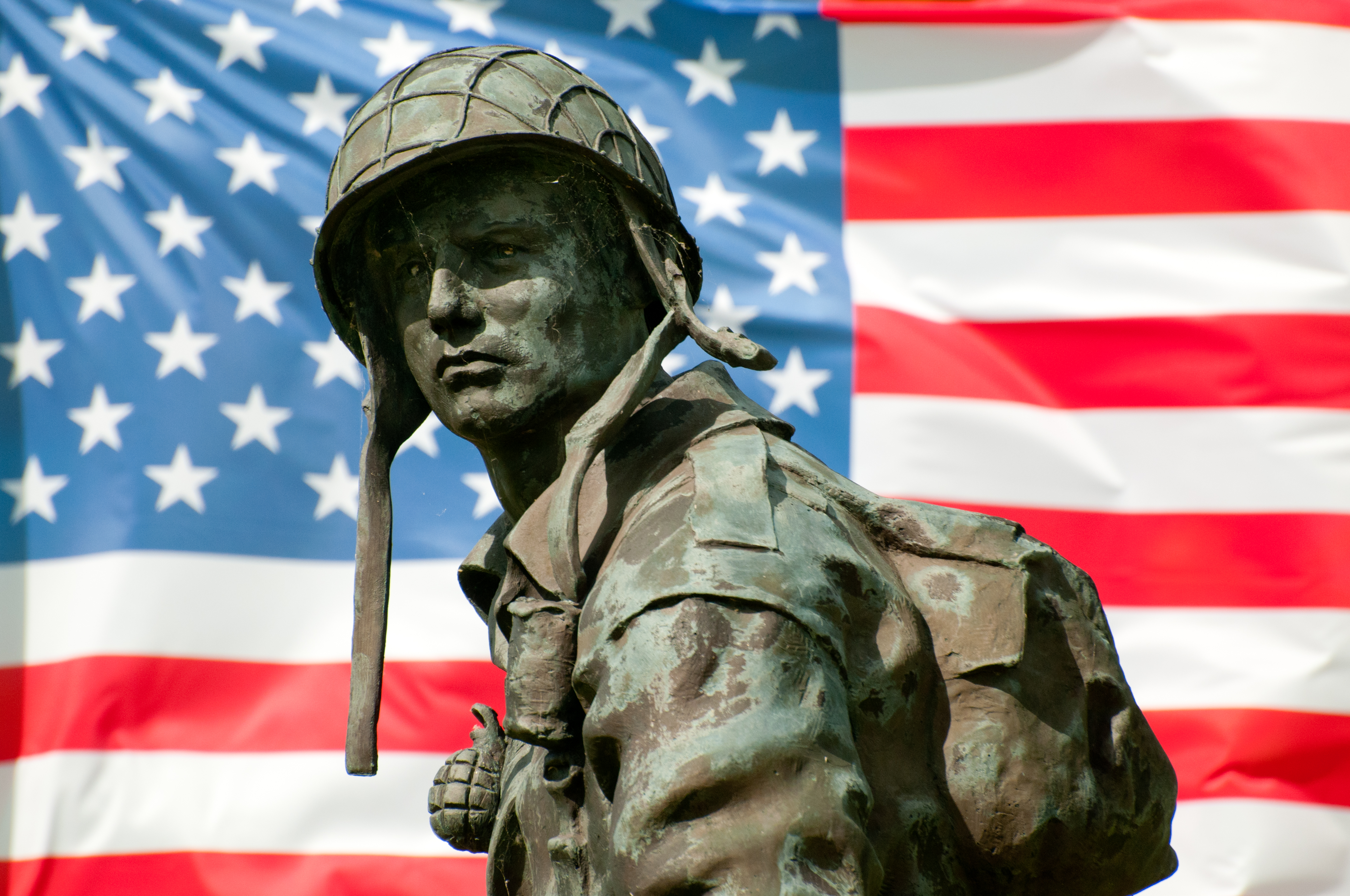 Iron Mike statue commemorating the fierce battle that raged around the bridge between the Germans and 82nd Airborne Division paratroopers.